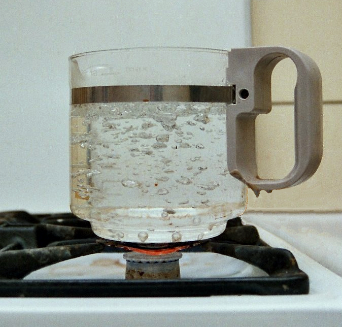 Boling water in colour